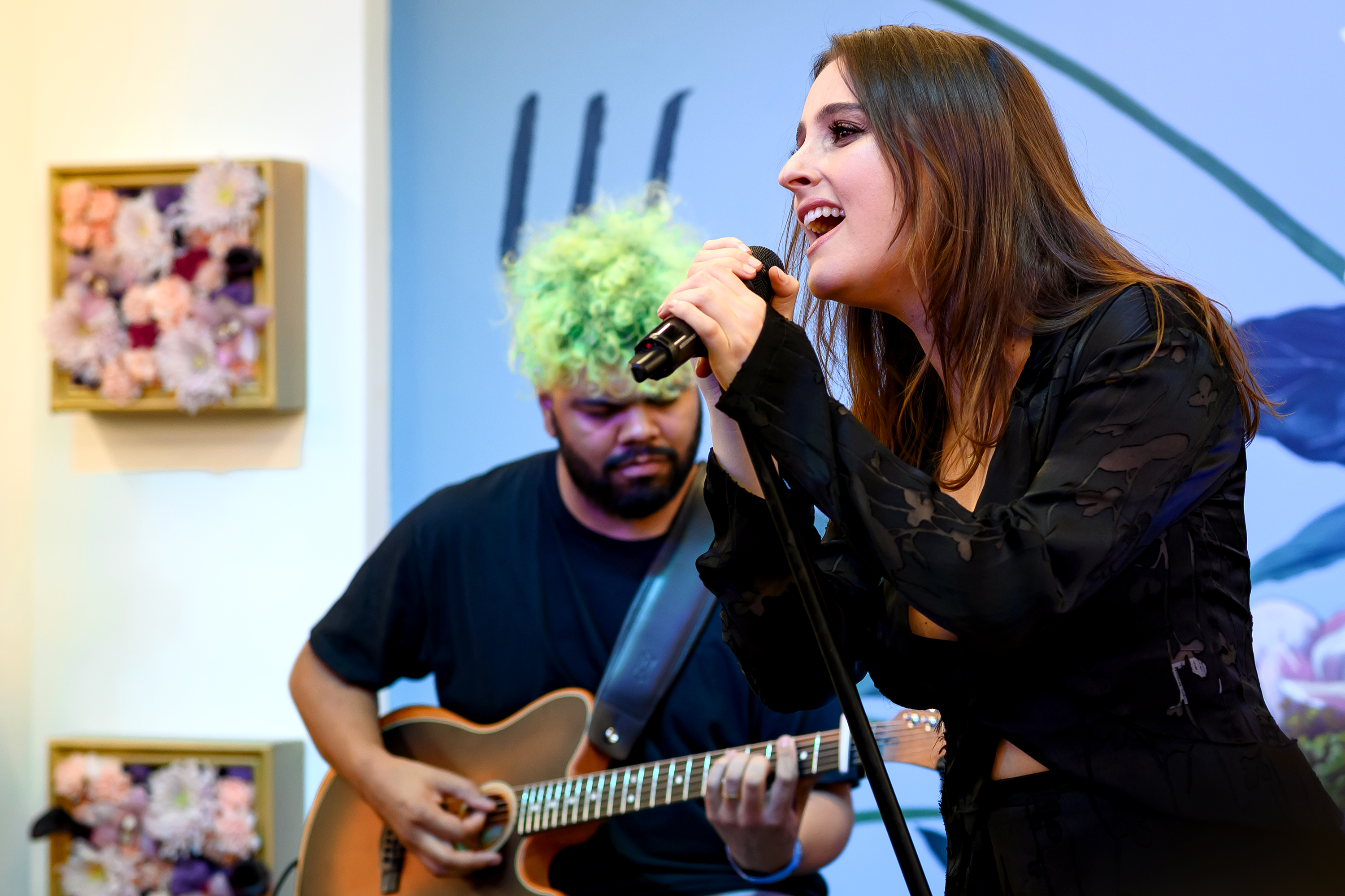 Banks performing live at Space 15 Twenty in Hollywood, Los Angeles, California, on Sunday, July 14, 2019.